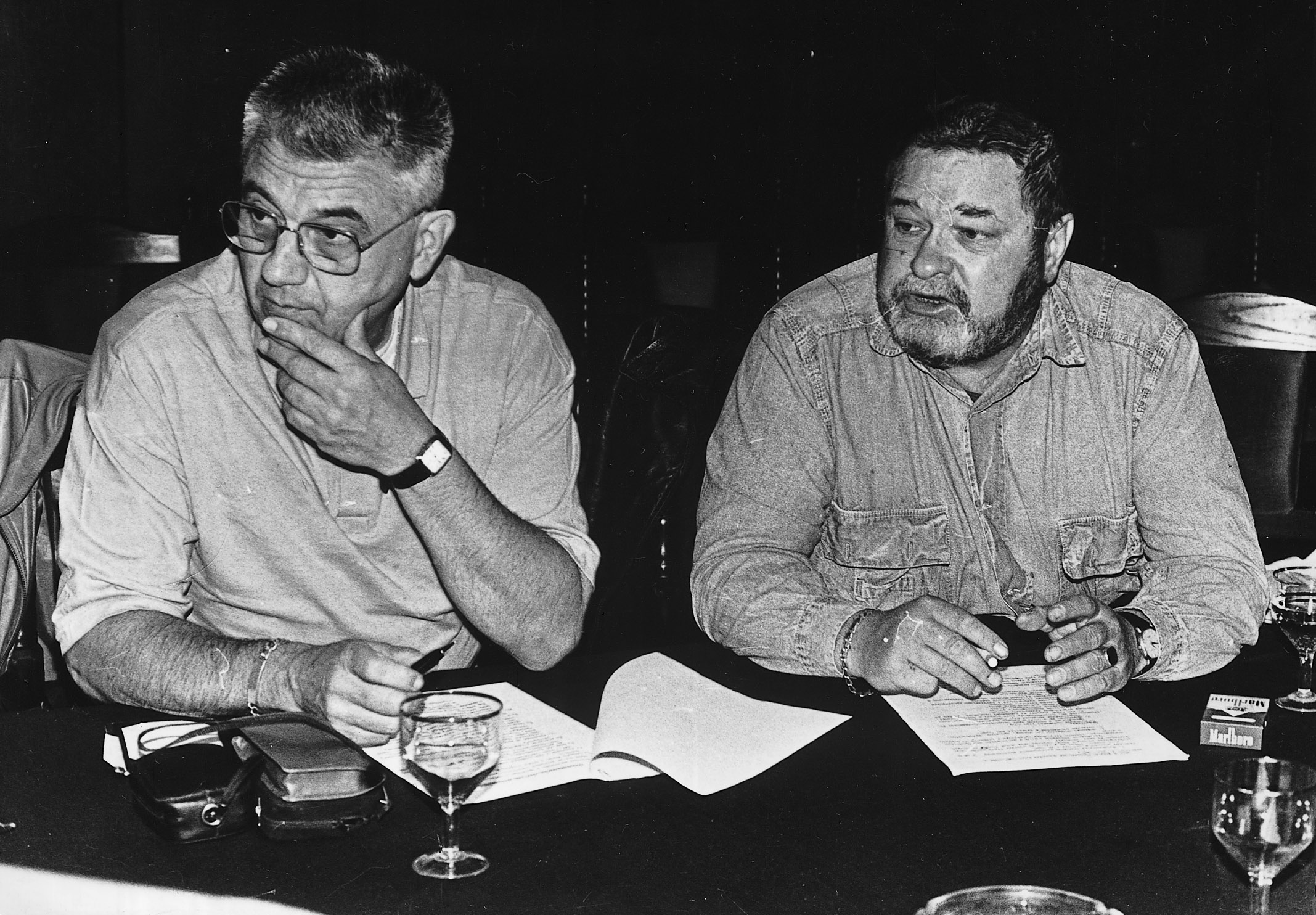 Soviet writers